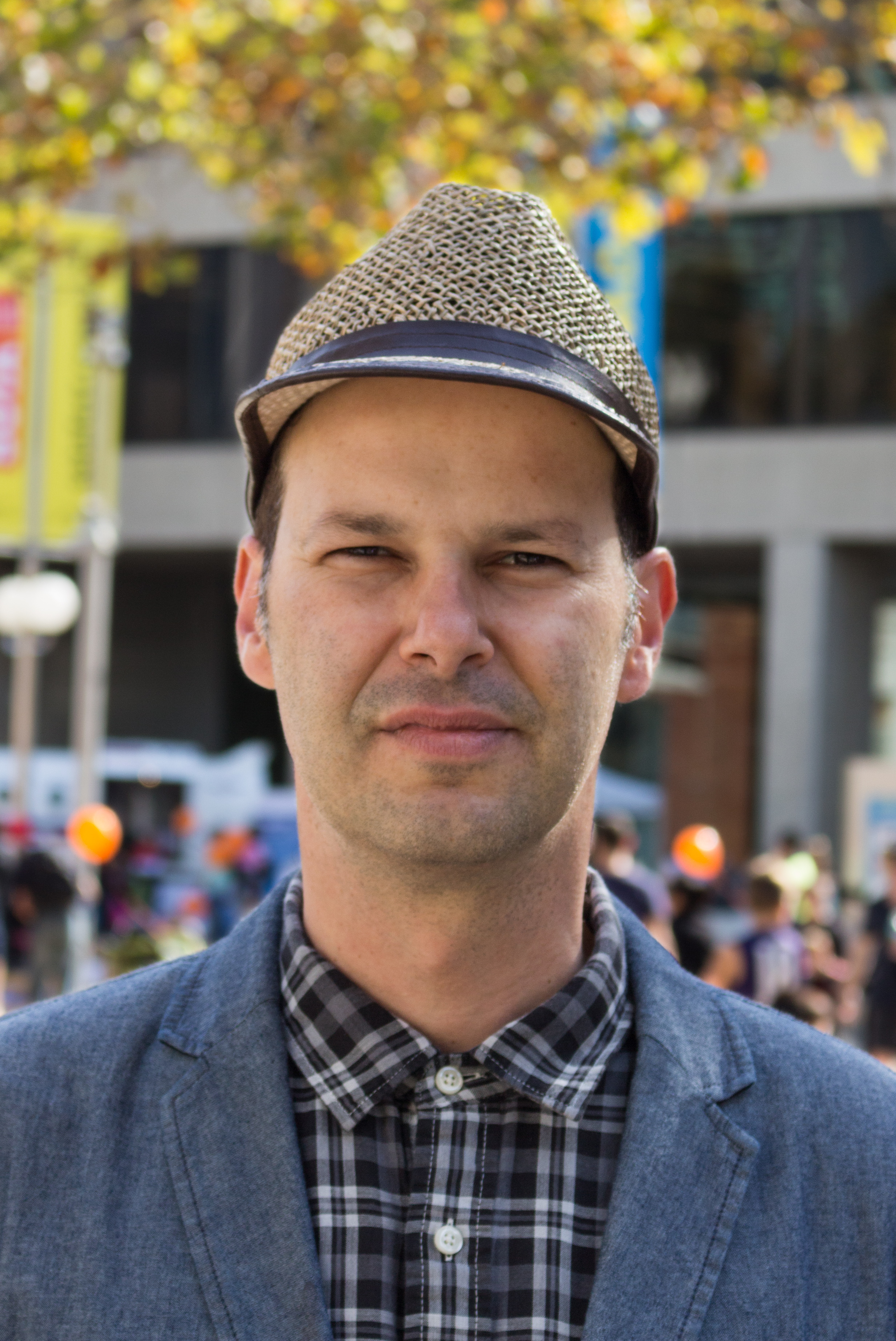 Noma Bar at a WA Day event in the Perth Cultural Centre